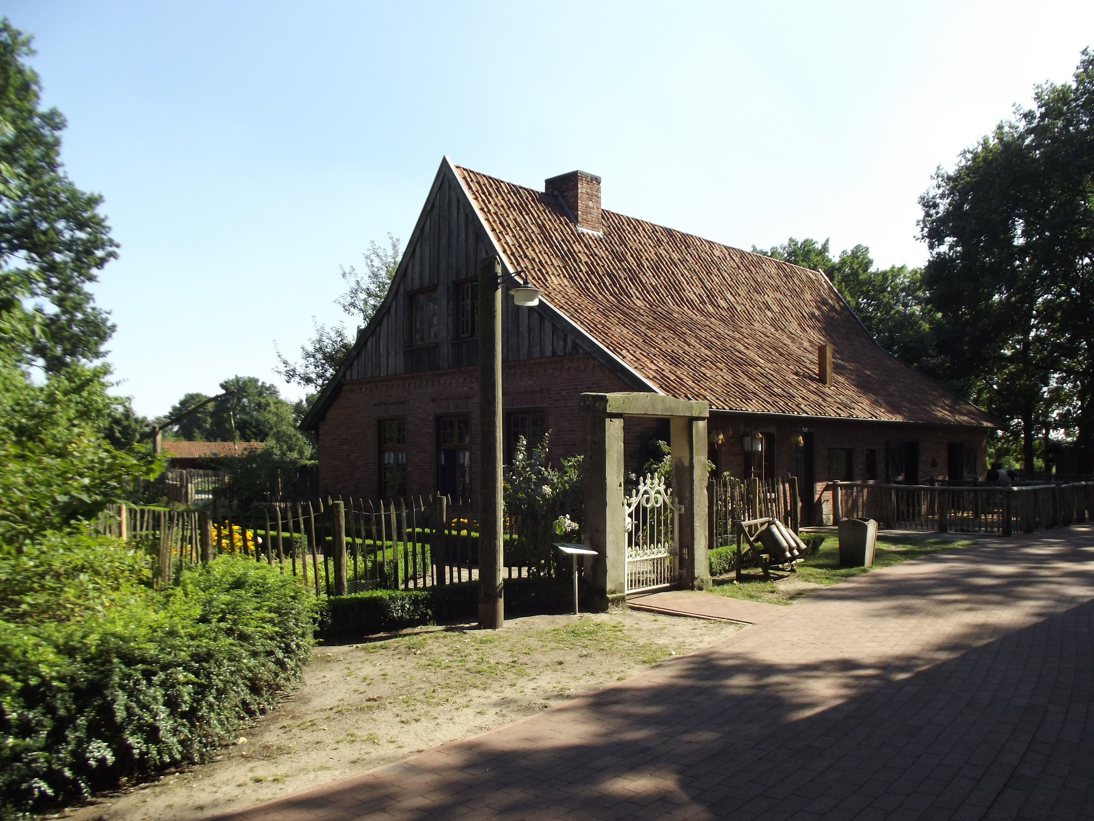 A traditional German farm on the premises of the Tierpark Nordhorn which shows city kids how people lived in the county before the age of industrialisation